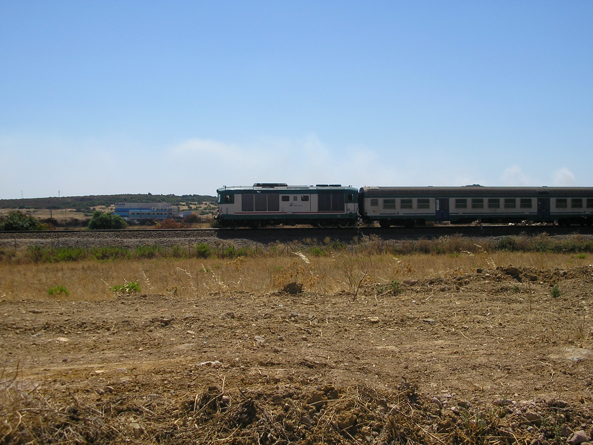 A Trenitalia D445 locomotive with rail cars next to the Carbonia Stato station